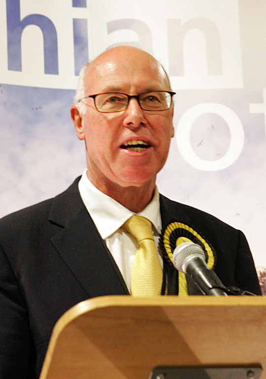 George Kerevan, the newly elected member of Parliament for East Lothian, accepts his office at the Haddington Corn Exchange in May 2015.